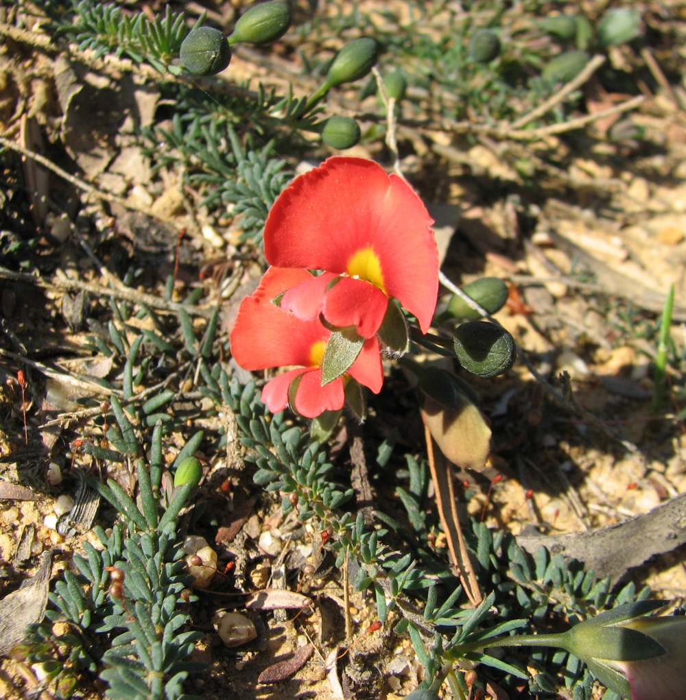 Gompholobium ecostatum Anglesea Heath, Victoria, Australia